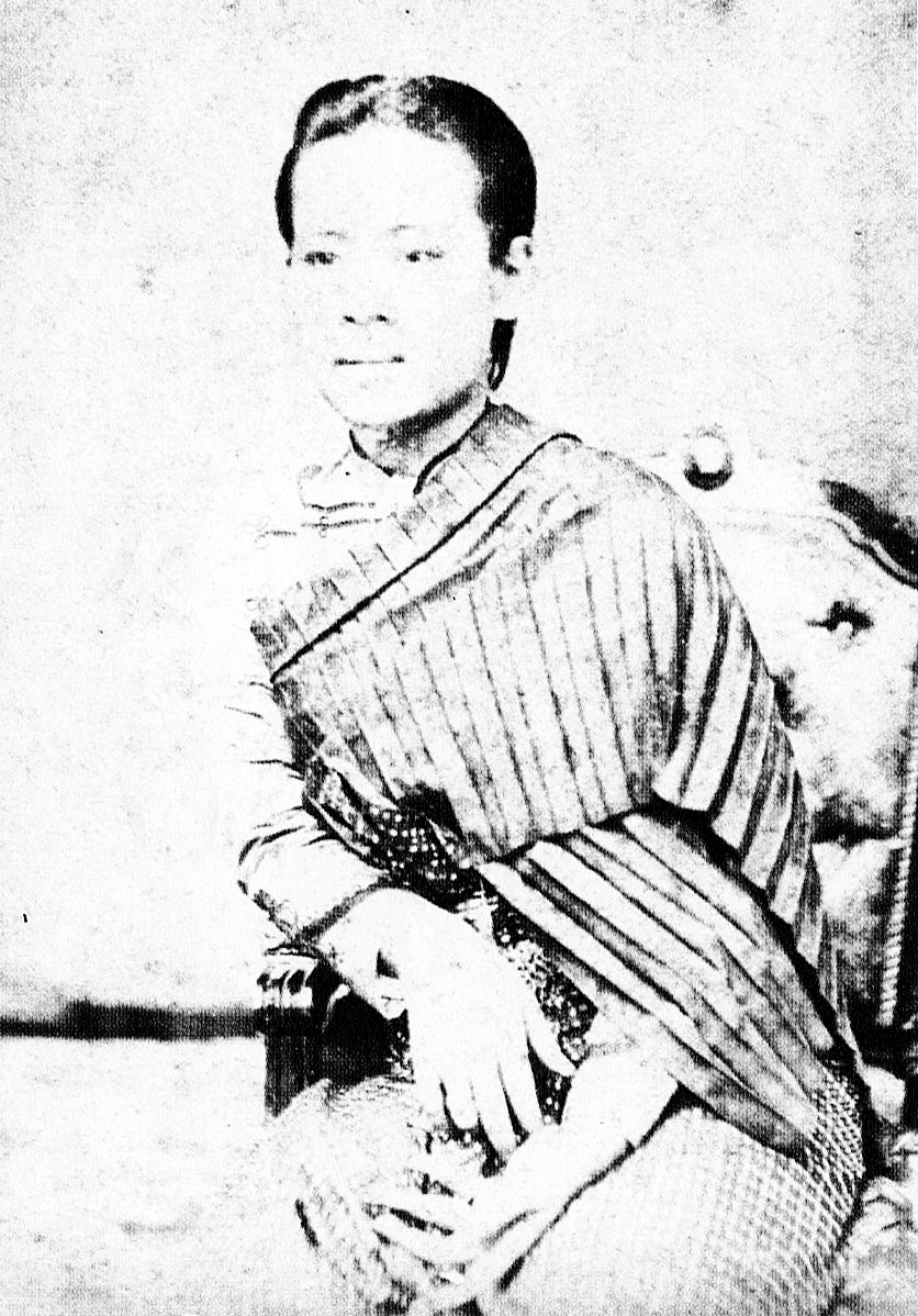 Princess Vani Ratanakanya is a daughter of King Rama IV and Chao Chom Manda Kaew Burunsiri